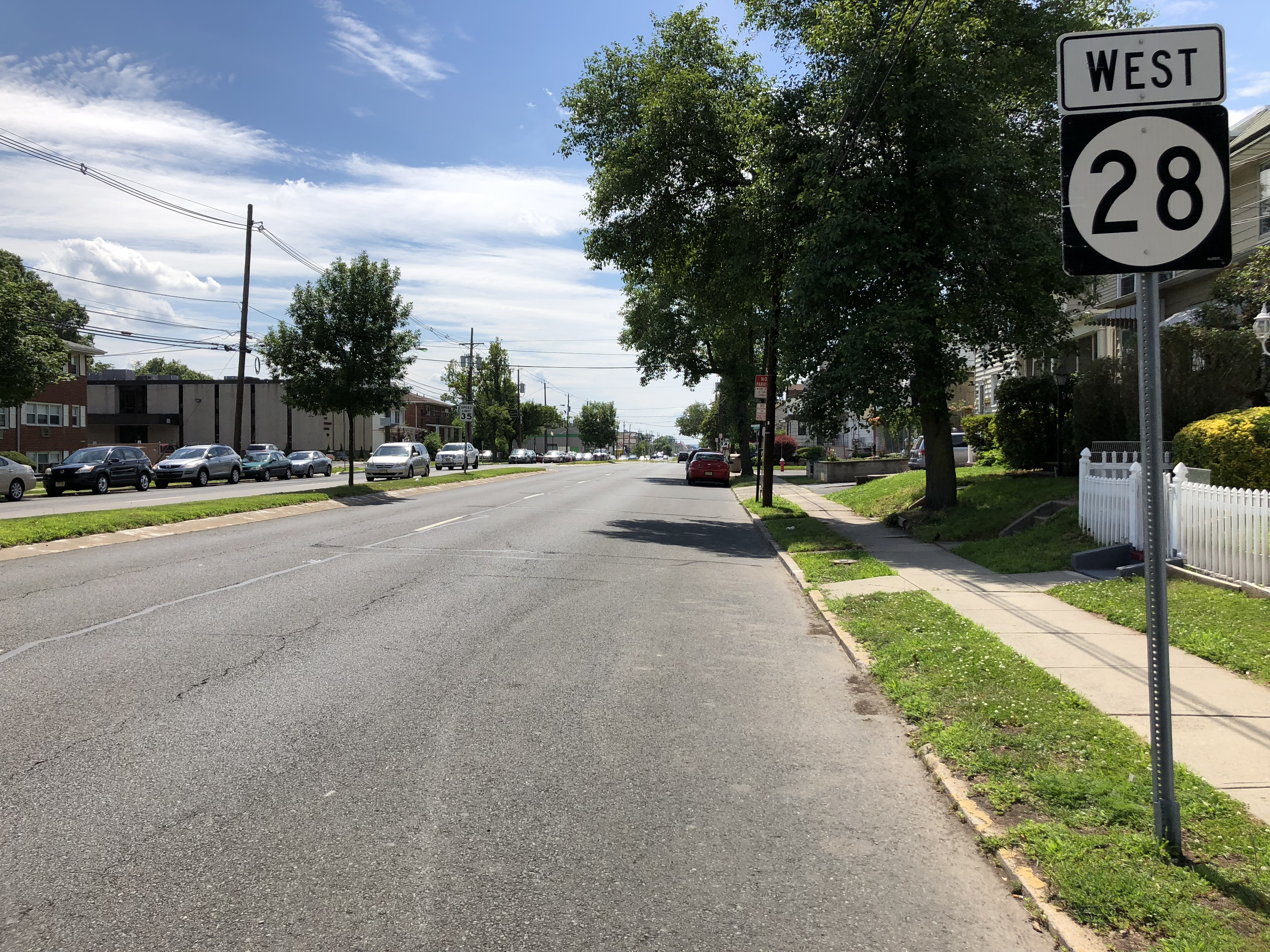 View west along New Jersey State Route 28 (Westfield Avenue) at Avon Street in Roselle Park, Union County, New Jersey